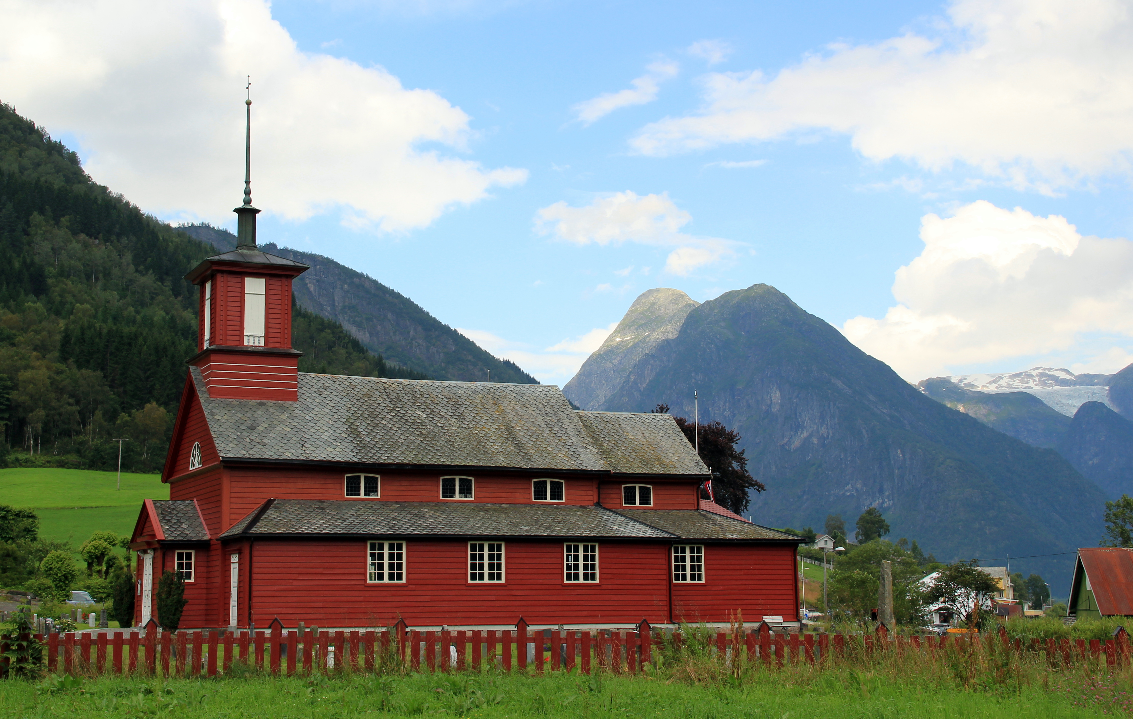 Fjærland church